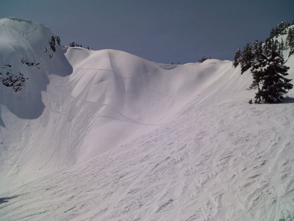 Top of Chair 8 - Mt Baker Ski Area